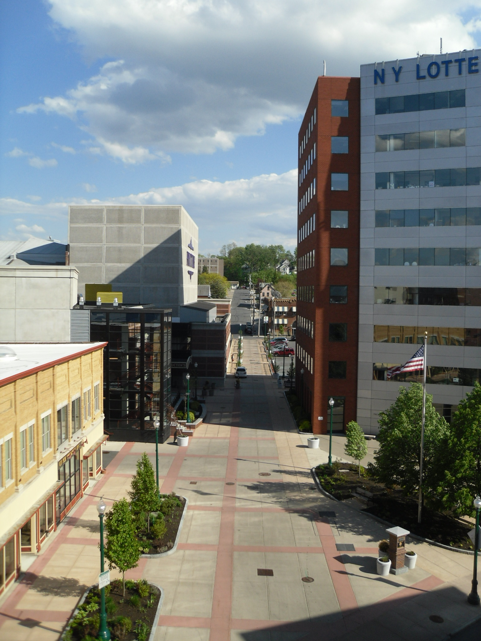 View of Downtown Schenectady